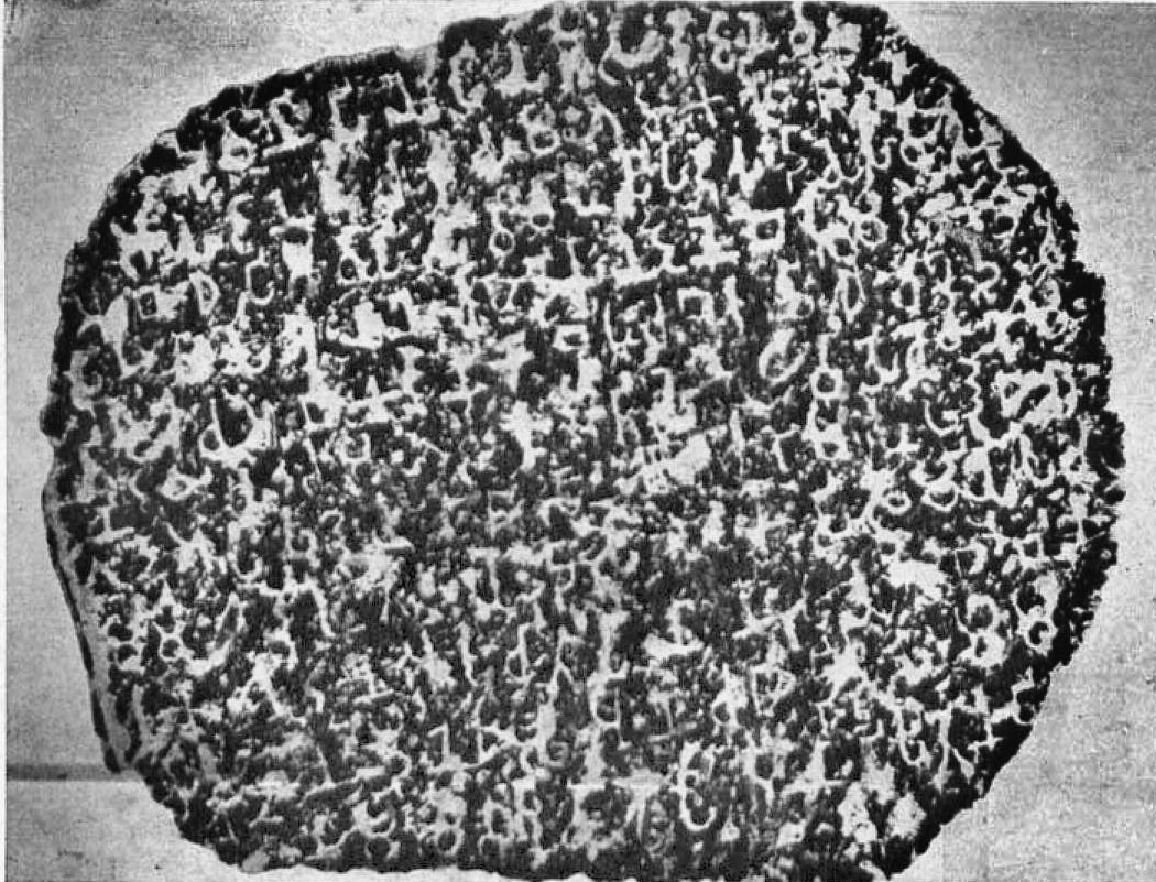 Soppara Ashoka Major Rock inscription (Major Rock Edicts No.9)